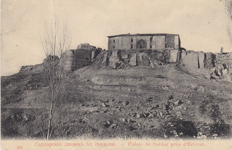 Serdar's Palace nera Erivan on Russian empire's postcard